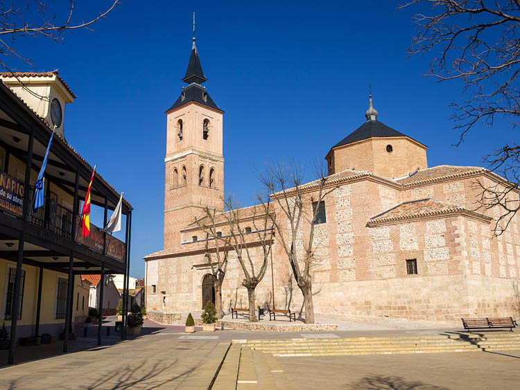 Iglesia de la Asunción de Nuestra Señora y Ayuntamiento